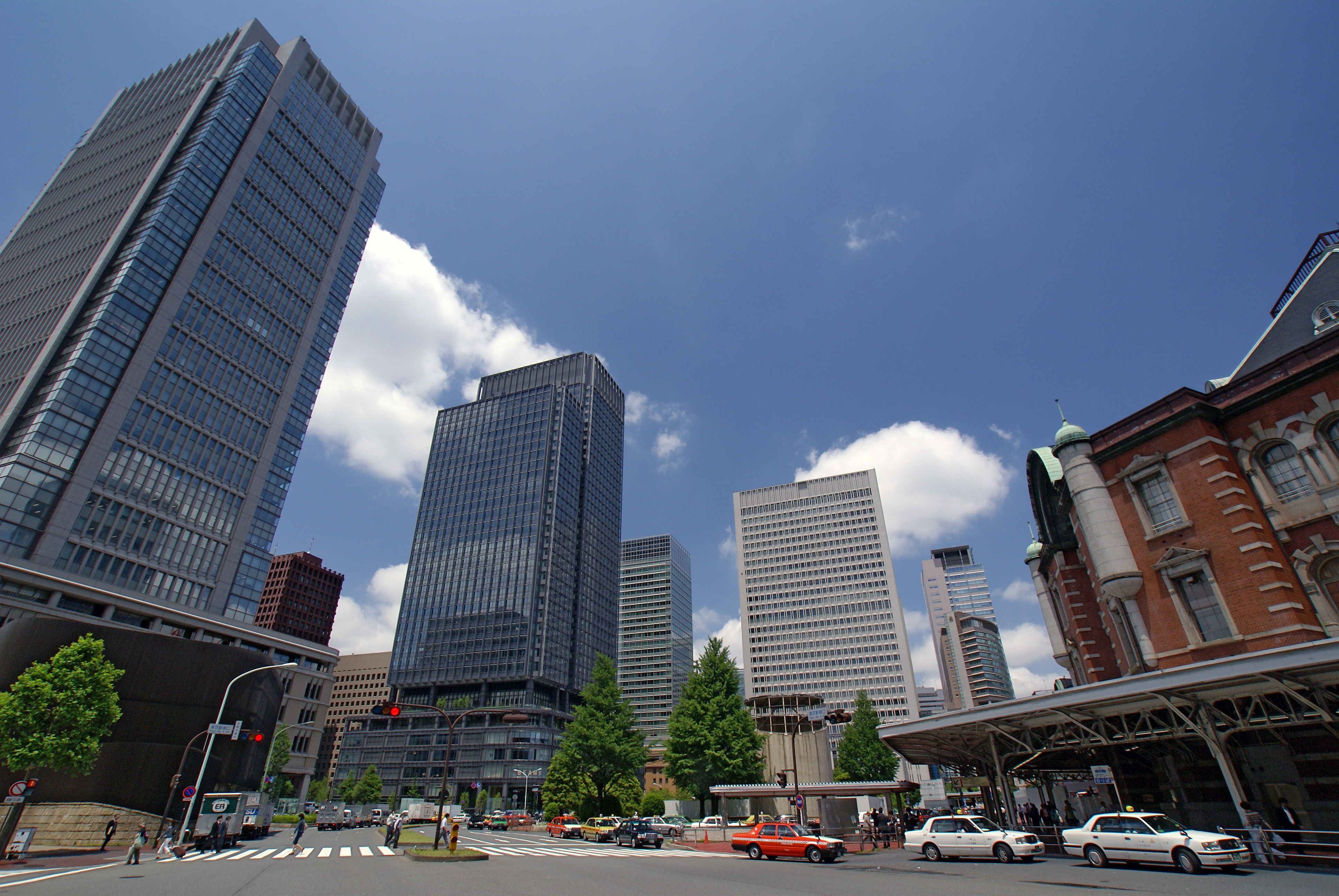 Marunouchi, Chiyoda-ku, Tokyo, Japan